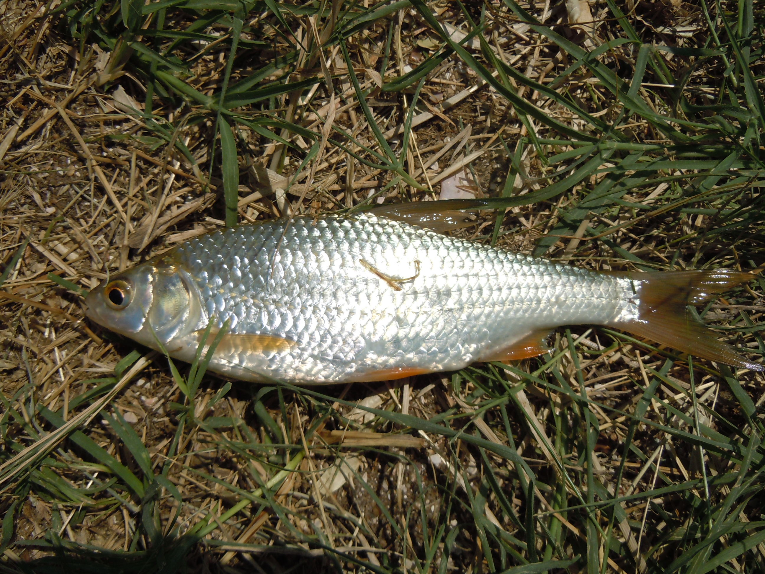 Taran (Rutilus heckelii) caught near the Bugaz Split, Town of Zatoka, South-Western Ukraine